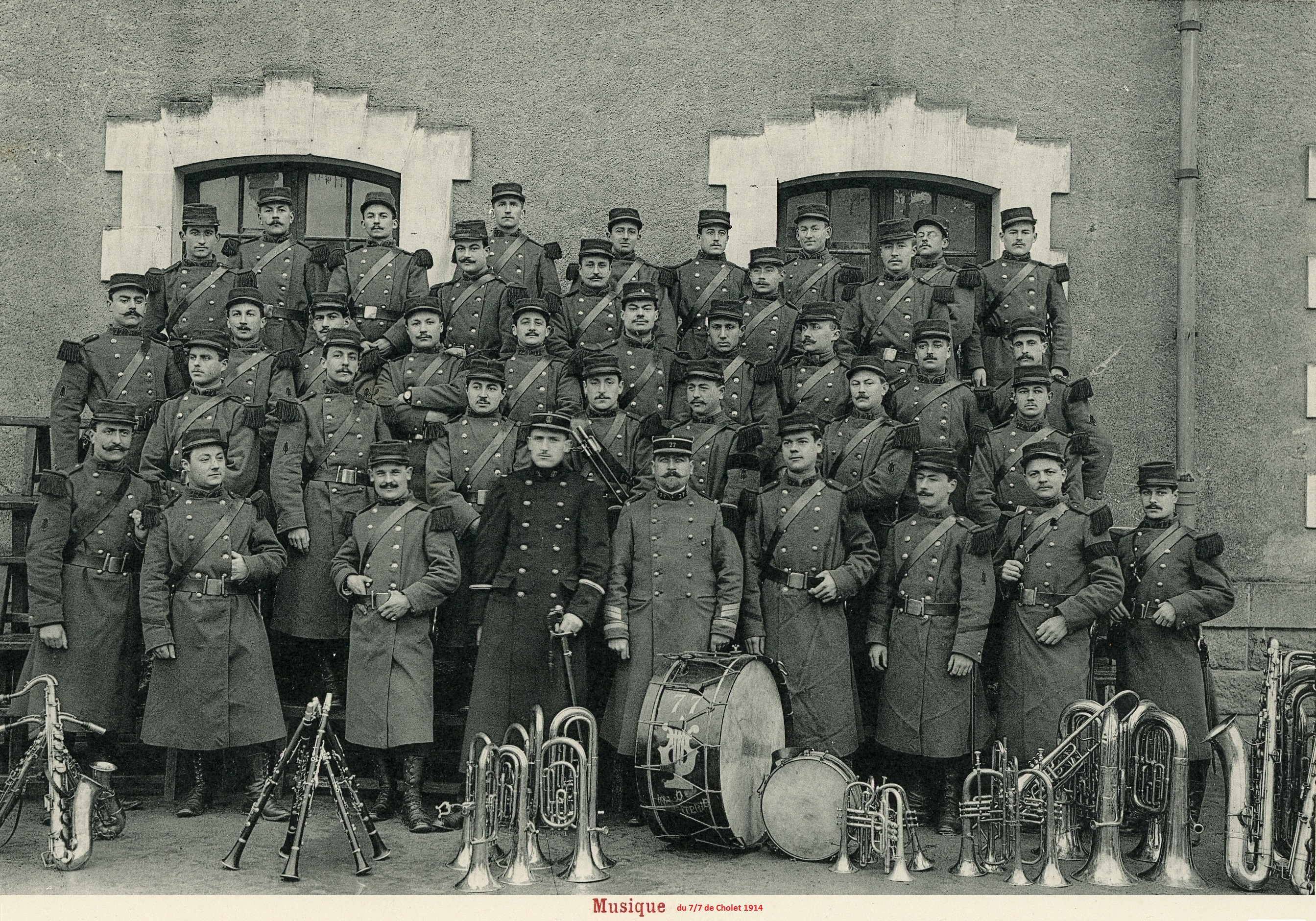 Says 7/7, based in Cholet Maine-et-Loire (notably during the 1914-1918 war)